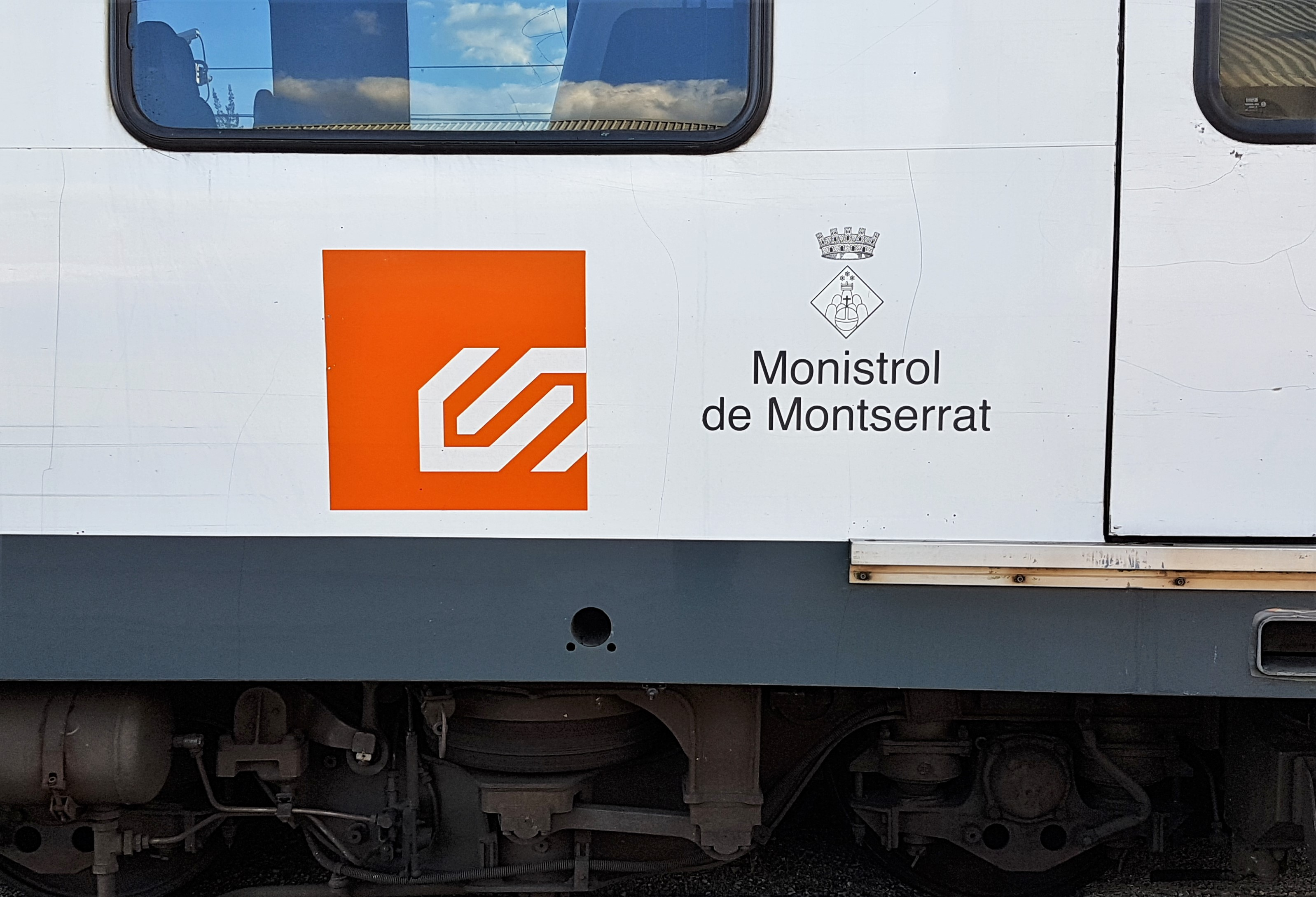 Name of the EMU 213.20 of Ferrocarrils de la Generalitat de Catalunya.